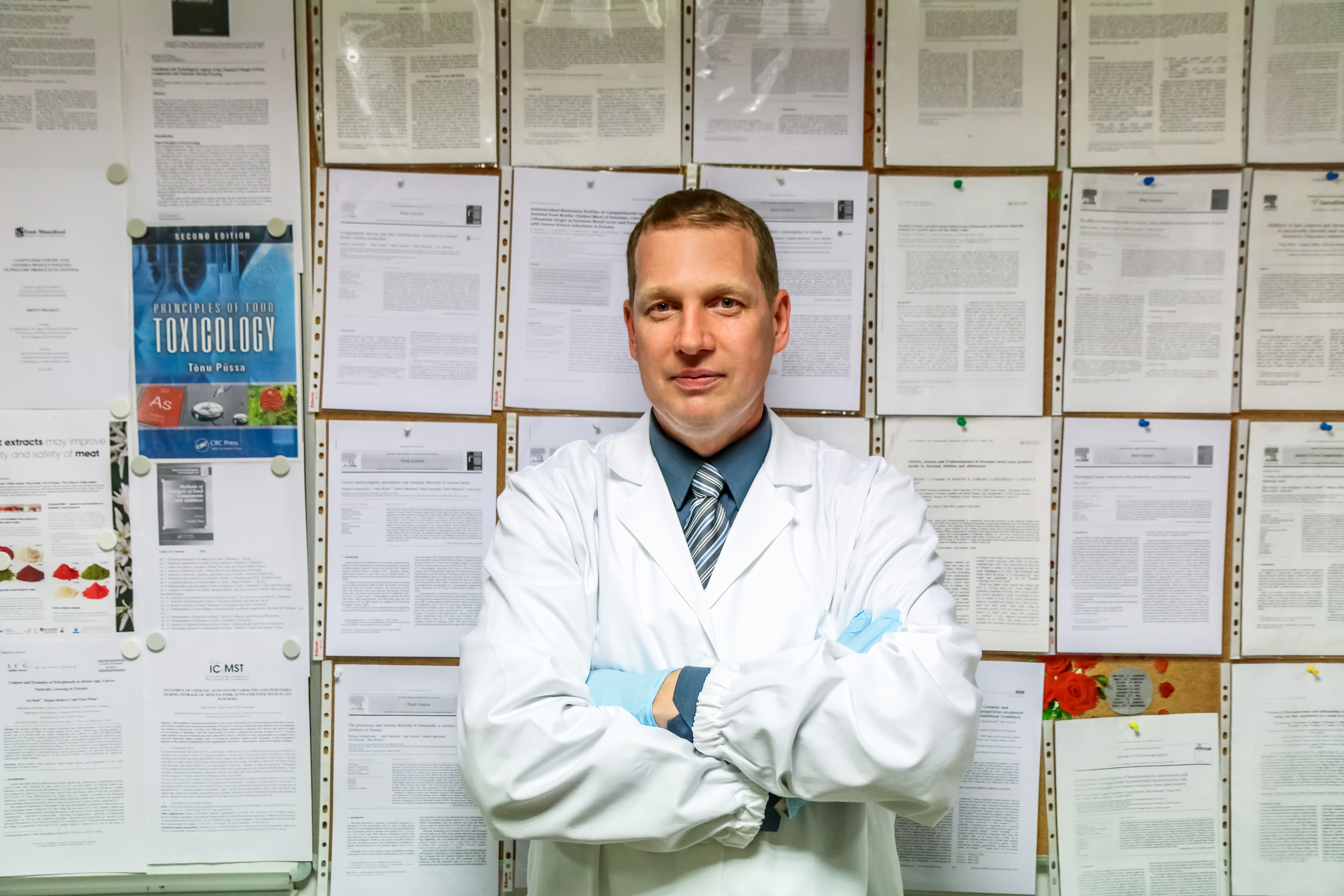 Head of the Chair of Food Hygiene and Veterinary Public Health of Estonian University of Life Sciences, Professor Mati Roasto.